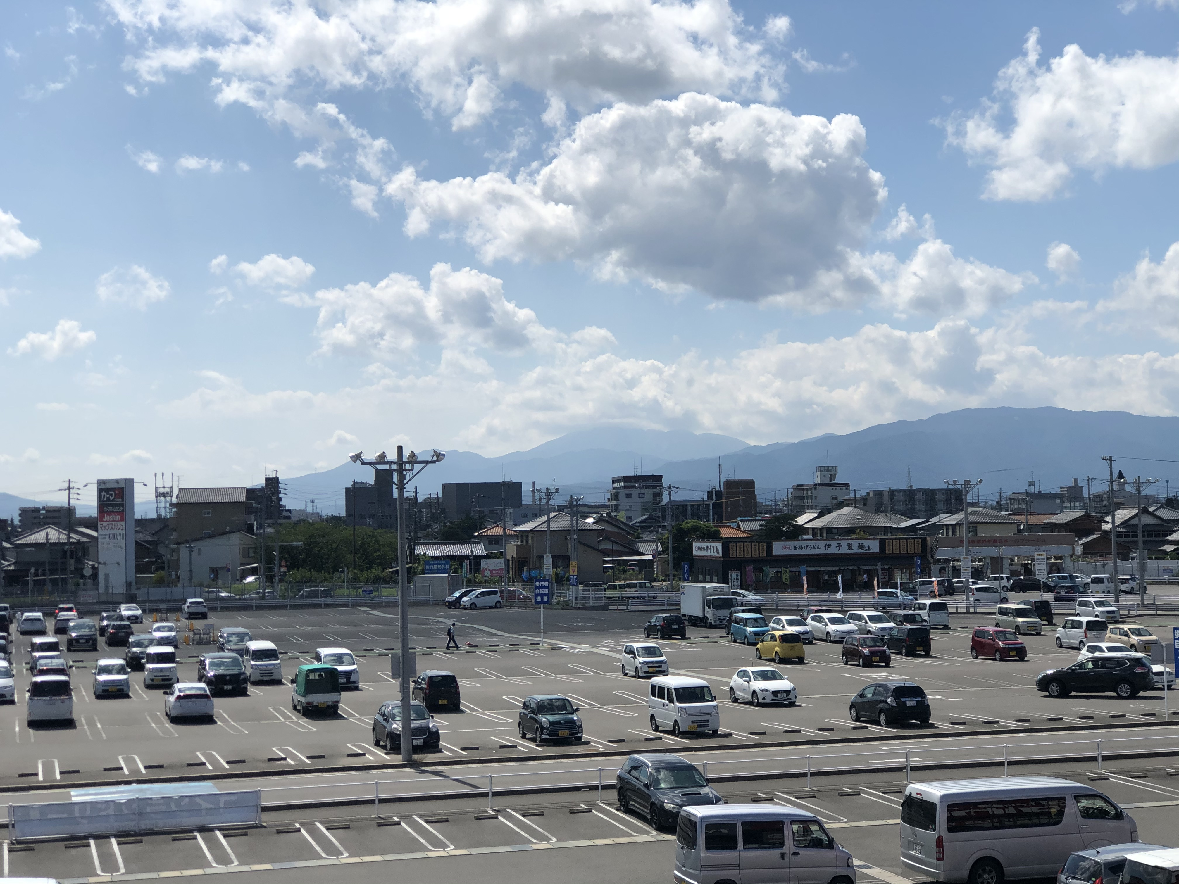 Mizuho City Skyline01